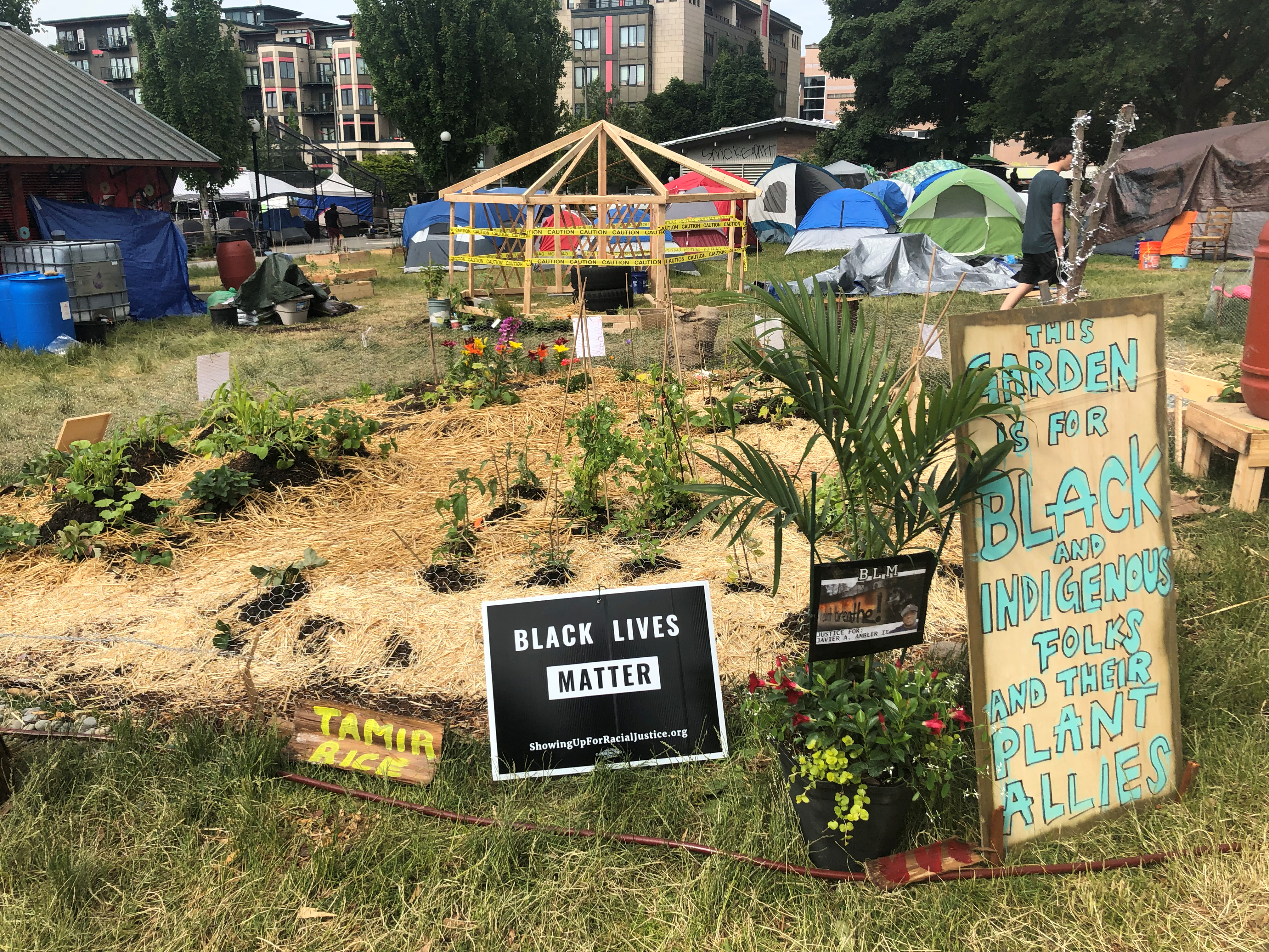 A makeshift garden in the central part of Cal Anderson Park on June 17, 2020. The words on the sign read, "THIS GARDEN IS FOR BLACK AND INDIGENOUS FOLKS AND THEIR PLANT ALLIES."